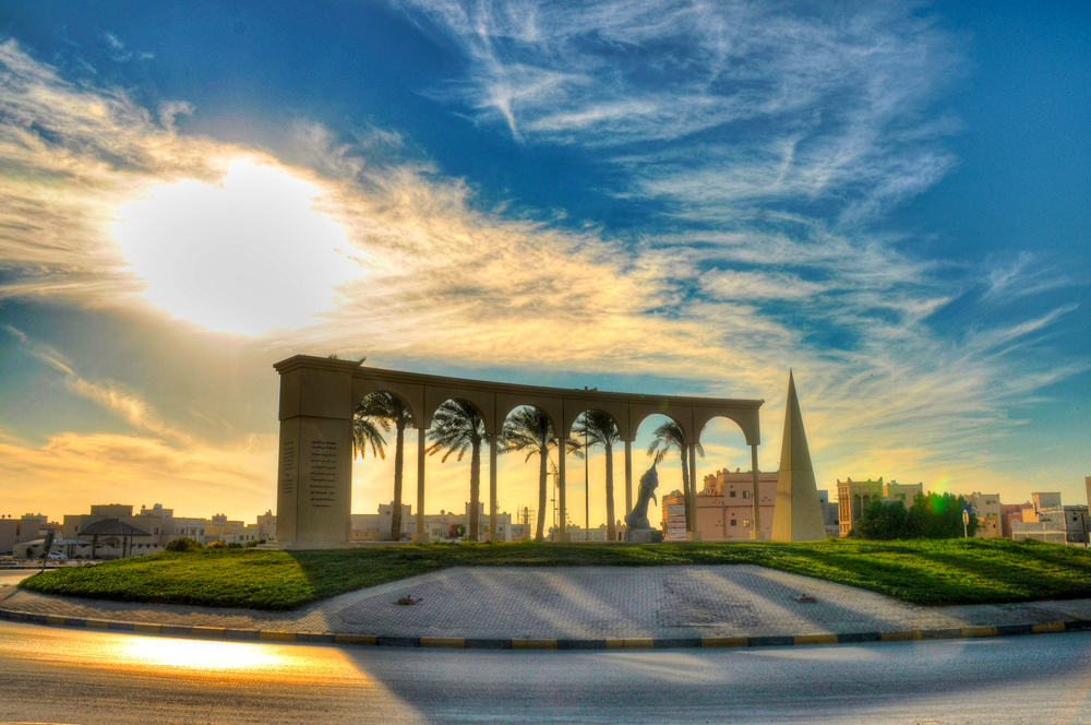 Tarfa bin alabad